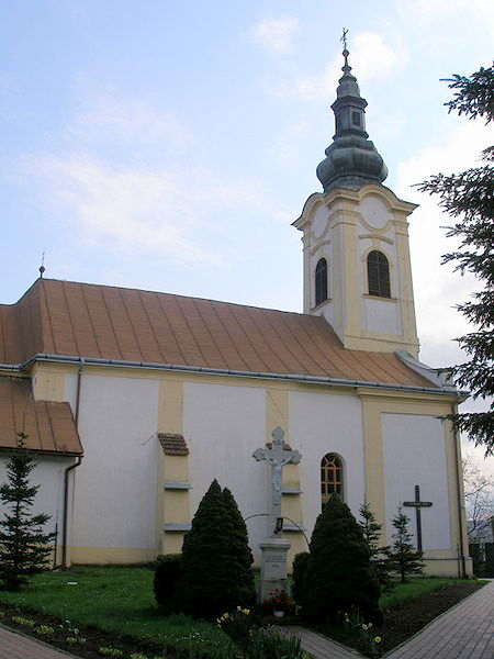 Obec Petrovany okres Prešov región Šariš This medium shows the protected monument with the number 707-339/0 (other) in the Slovak Republic.